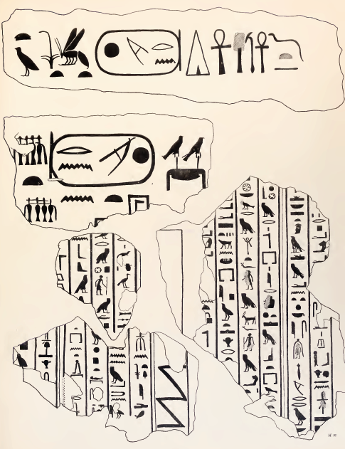 Fragments of private steles with the Name of king Merenra from the temple of Osiris at Abydos.